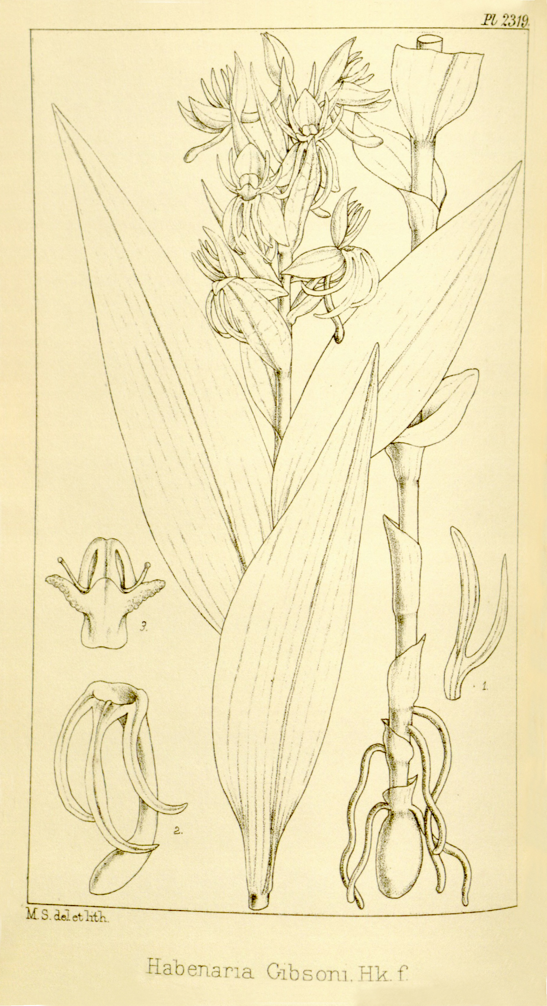 Illustration of Habenaria foliosa (as syn. Habenaria gibsonii, spelled by Hookert as Habenaria gibsoni)